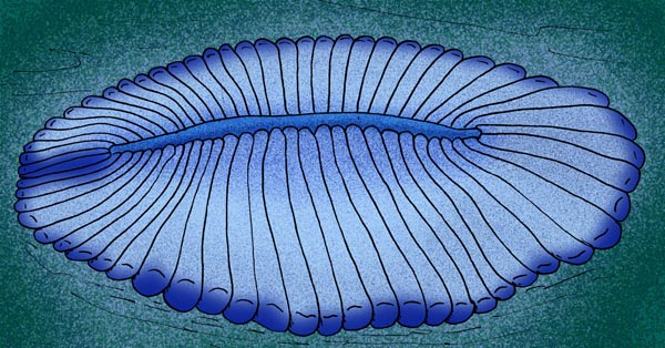 Reconstruction of the proarticulatan Dickinsonia costata, of Precambrian Australia